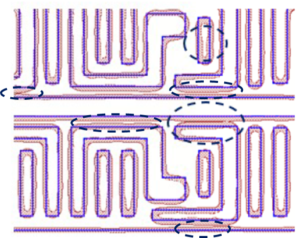 In a bidirectional metal layout, EUV SMO (source mask optimization) is still challenged by tip-to-side gap closure. The illumination is nearly dipole-shaped. Blue edges mark the original design, while the pink hashed regions indicate the contour process variation (PV) bands. Circled areas indicate particularly high-risk spots. Ref.:M. Crouse et al., Proc. SPIE 10148, 101480H (2017).